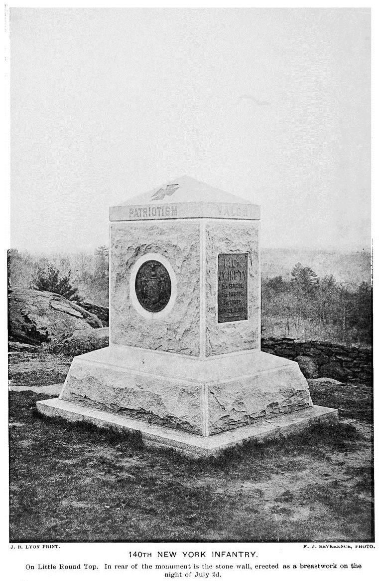 140th New York Infantry Monument, Gettysburg Battlefield. New York Monuments Commission, Final Report on the Battlefield of Gettysburg, Volume 3 (Albany, NY: J. B. Lyons Company, 1902), opp. p. 950.[1]